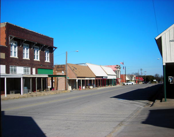 Downtown Italy, Texas; looking east along Texas Highway 34.